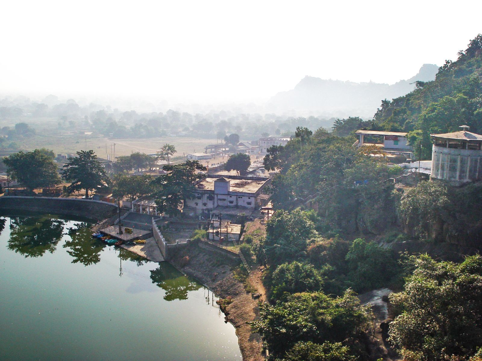 Panoramic view of the ropeway to Bamleshwari Temple at Dongargarh, Chhattisgarh.